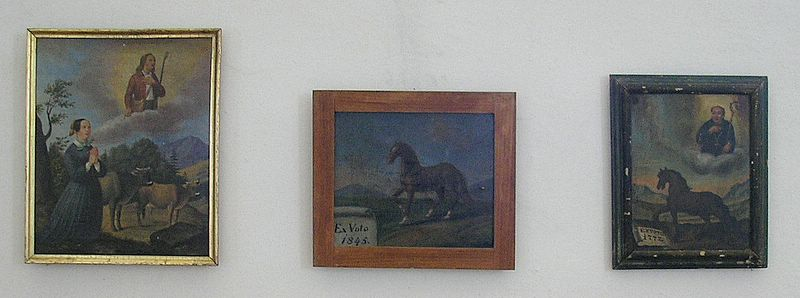 Chapel of ease St. Leonhard (Berghofen, Stadt Sonthofen, Landkreis Oberallgäu, Bavaria, Germany). Ex-votos at the nave